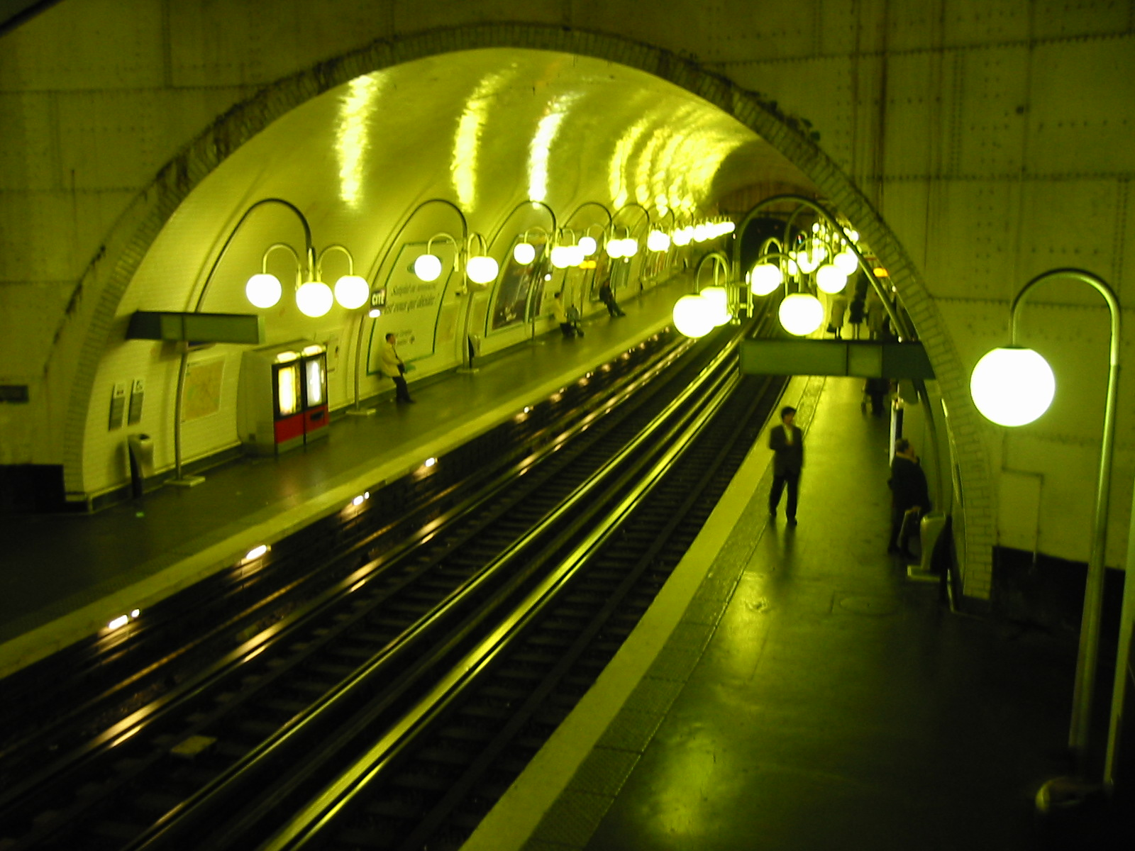 The metro station "Cité" in Paris